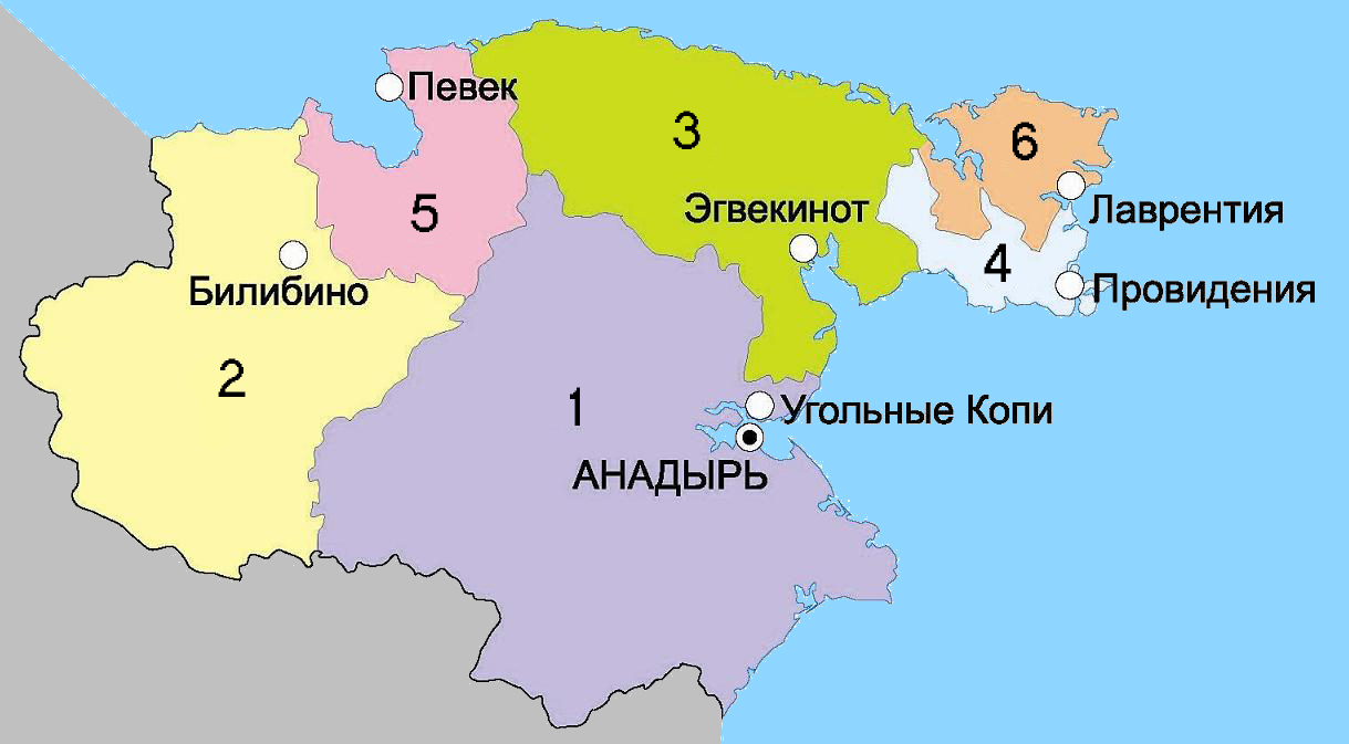 Division of Chukotka (since 2008)